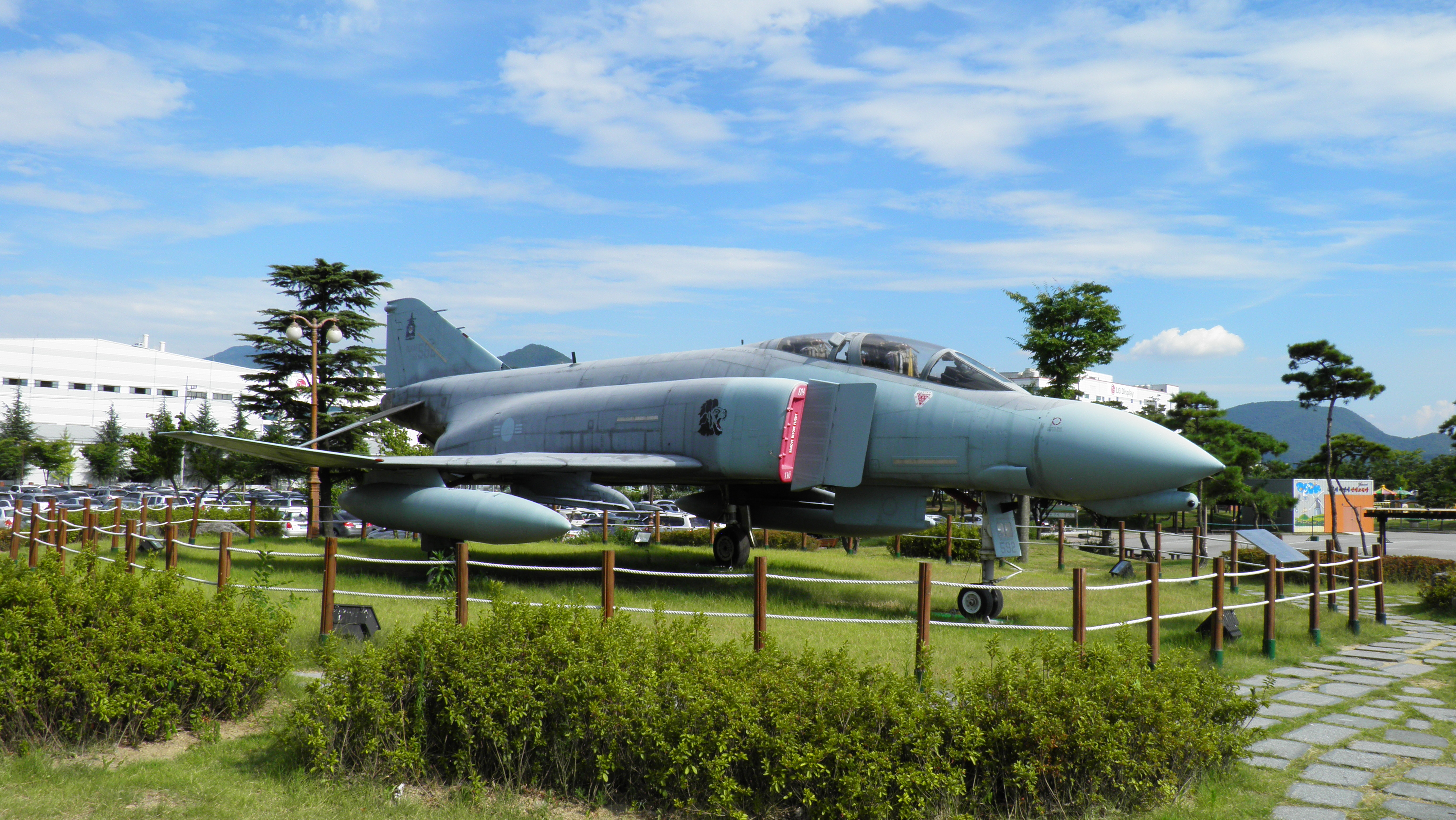 Republic of Korea Air Force F-4D (Phantom) on display in Dongrak Park in Gumi, South Korea